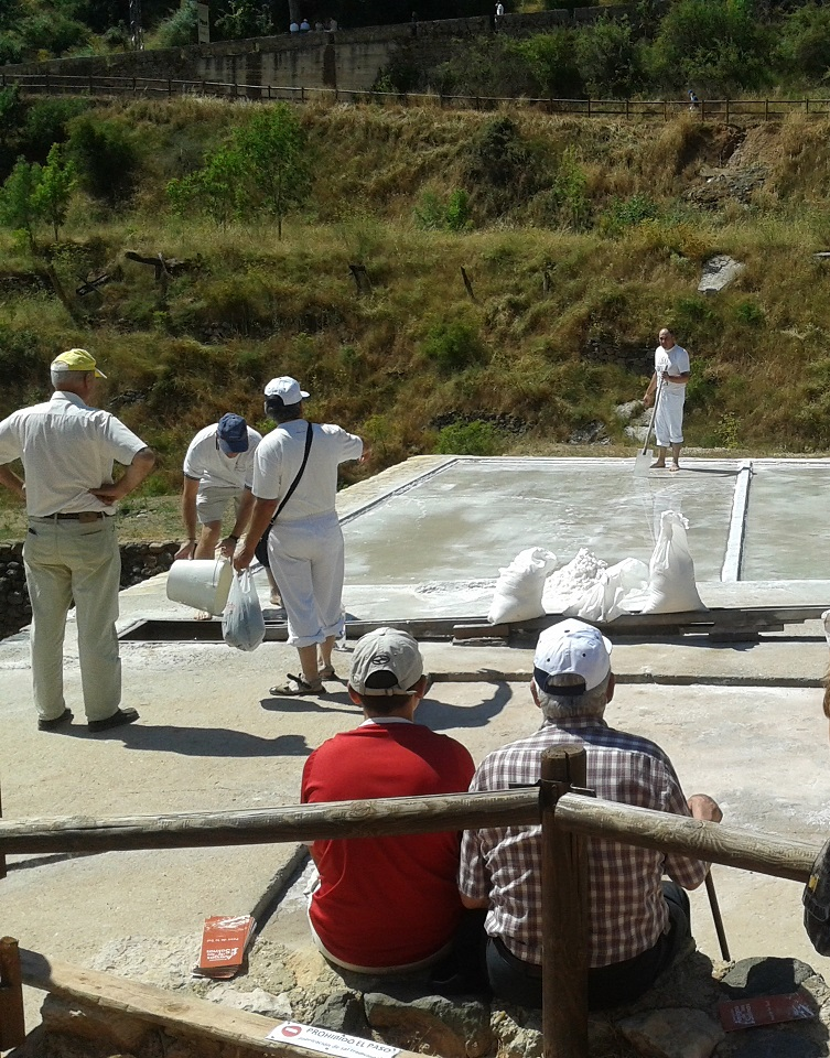 Ancient Roman salt production industry in Poza de la Sal, Castille and Leon, Spain.